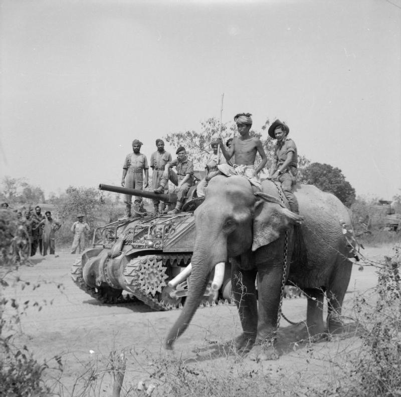 THE BRITISH ARMY IN BURMA, MARCH 1945, The British commander and Indian crew of a Sherman tank of the 9th Royal Deccan Horse, 255th Indian Tank Brigade, encounter a newly liberated elephant on the road to Meiktila, 29 March 1945.